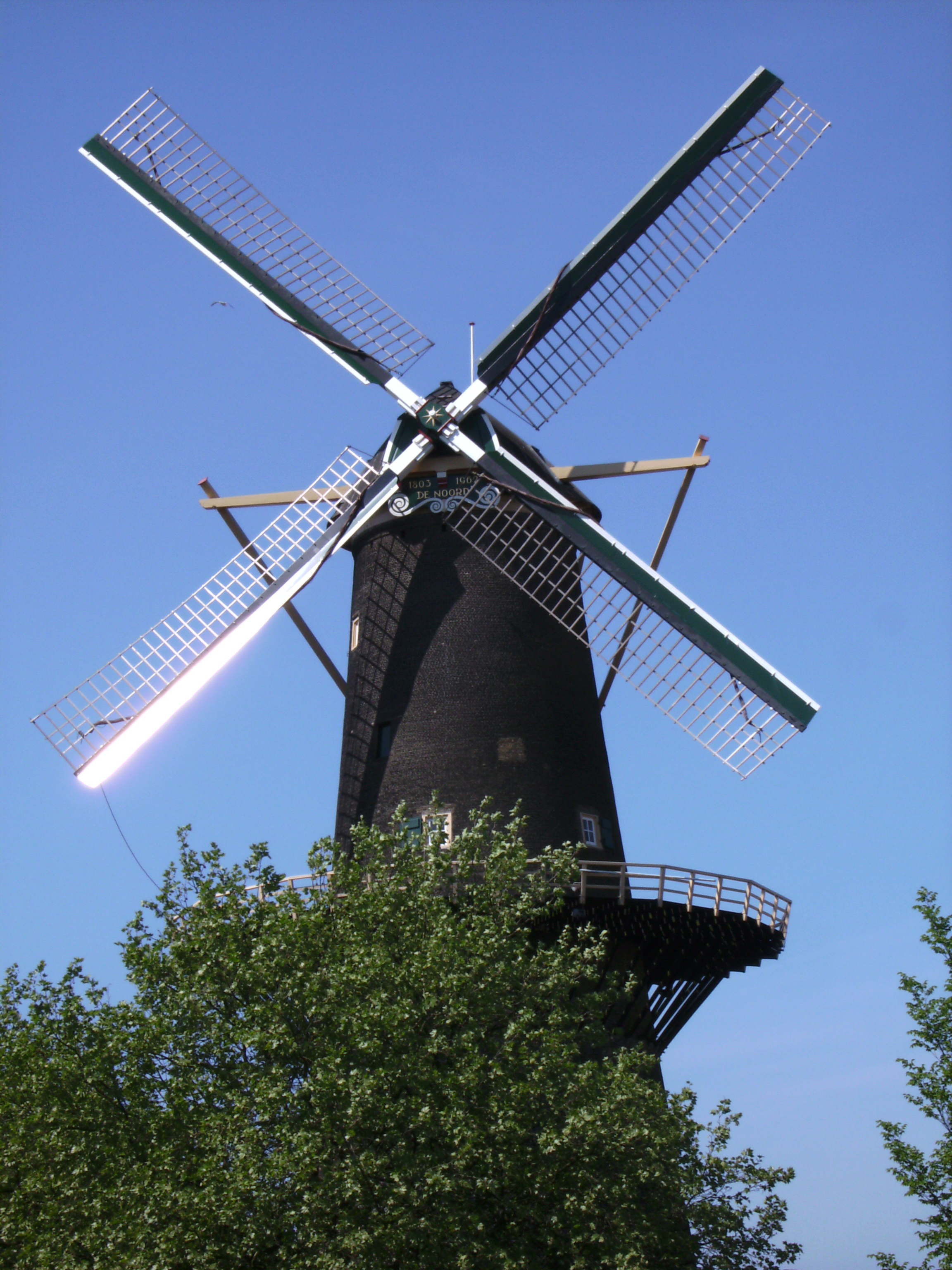 Schiedam, windmill "De Noord"